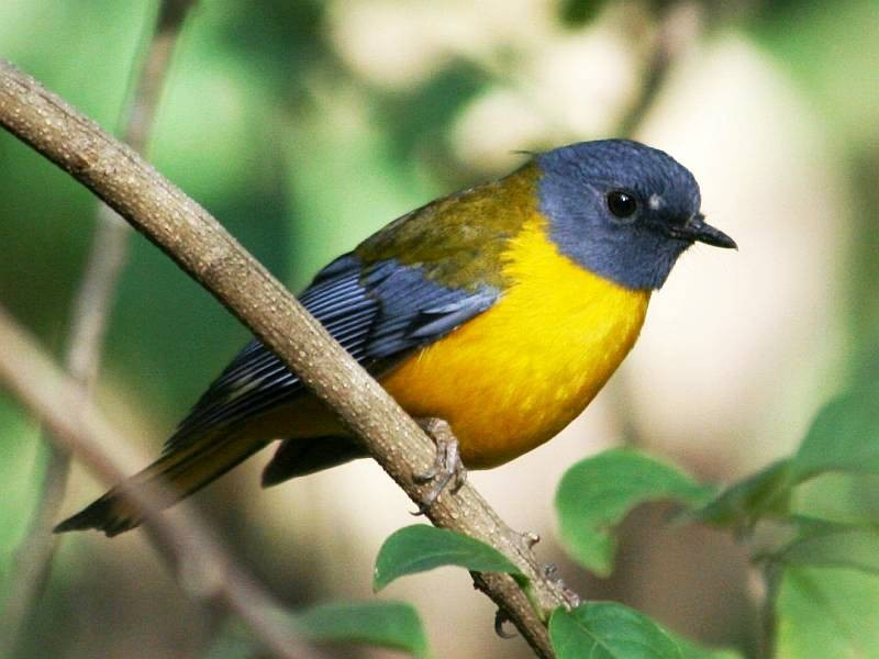 White-starred Robin Pogonocichla stellata, Pietermaritzburg, KwaZulu-Natal, South Africa. For more information on this species see birdforum opus: White-starred Robin